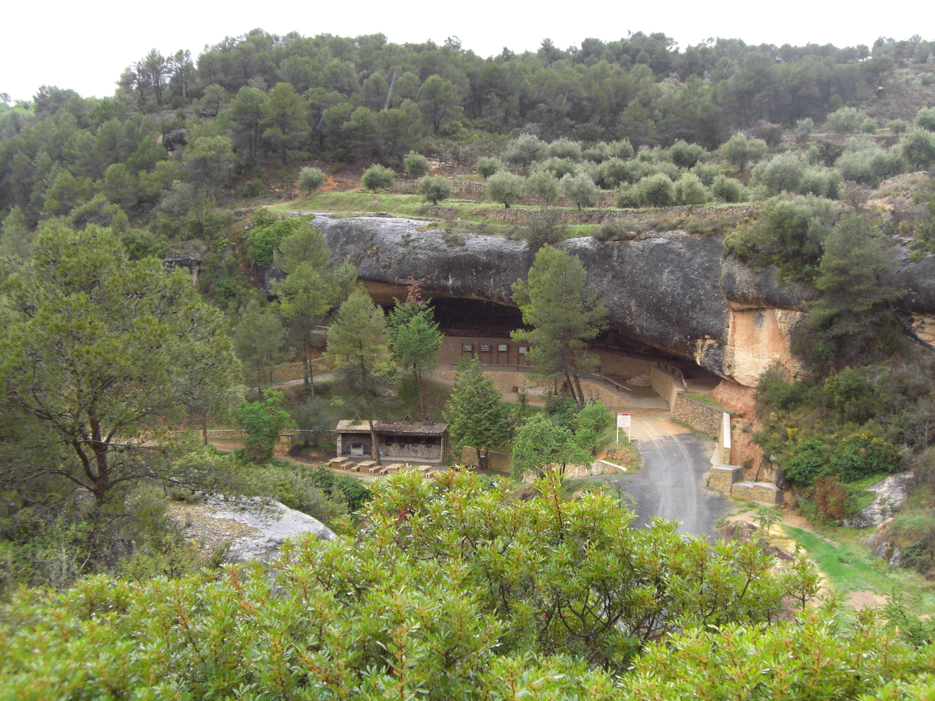 The cave-hospital of International Brigades in La Bisbal de Falset (Catalonia) during Spanish Civil War